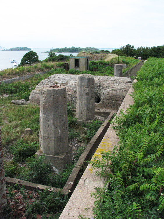 This photo, taken in August, 2010, looks northwesterly and shows three concrete columns that used to serve as the bases for depression position finder (DPF) instruments that were used by the U.S. Coast Artillery to control the fire of their gun batteries. These three columns were part of the fire control system at Fort Warren on Georges Island in Boston Harbor. They are located atop Bastion E in the southwest corner of the fort. The two nearest columns were enclosed in one fire control building and the one in the background was in a separate building. Originally, a floor existed at a level that would have put the roughly four foot-tall instrument at the user's eye level. The roofs, floors, and walls of these buildings, built in the period 1905-1920, have since collapsed and disappeared. The barrel-shaped building behind the second column is an old magazine, likely left over from the time when powder for muzzle-loading cannon was stored in this area.